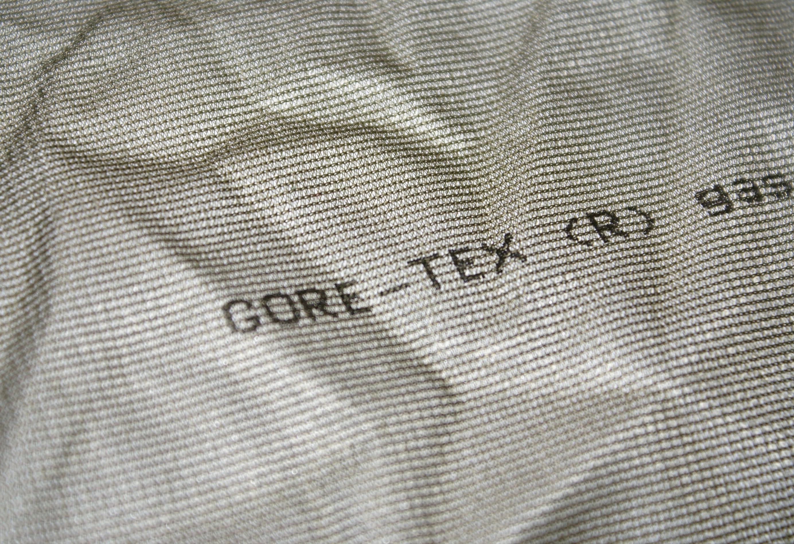 Inside surface of a Gore-Tex shell.